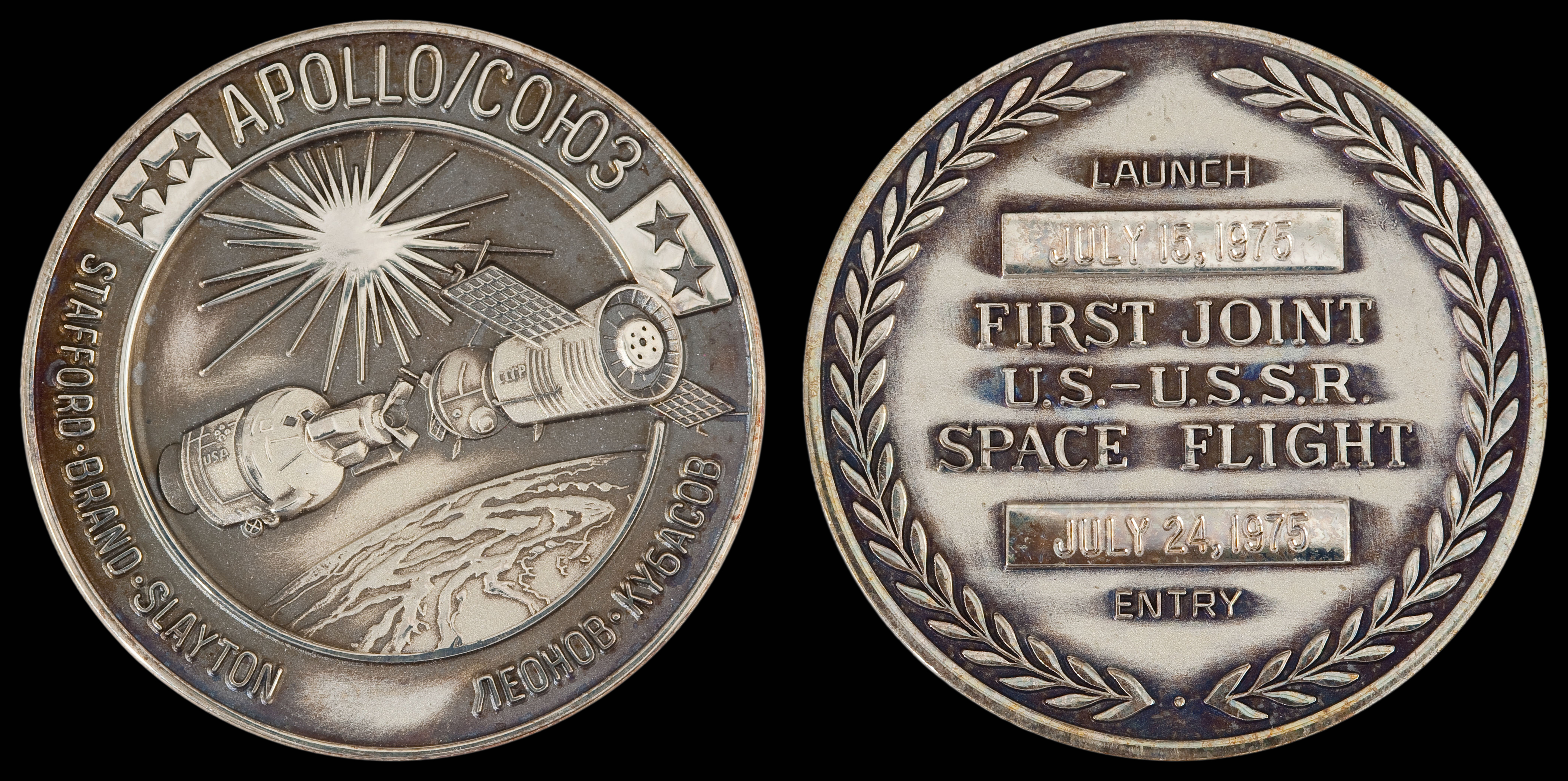 Apollo-Soyuz Test Project Flown Silver Robbins Medallion (6075-40179)